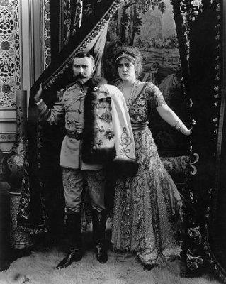 Screenshot from the 1917 silent film The Fall of the Romanoffs with Alfred Hickman and Nance O'Neil.